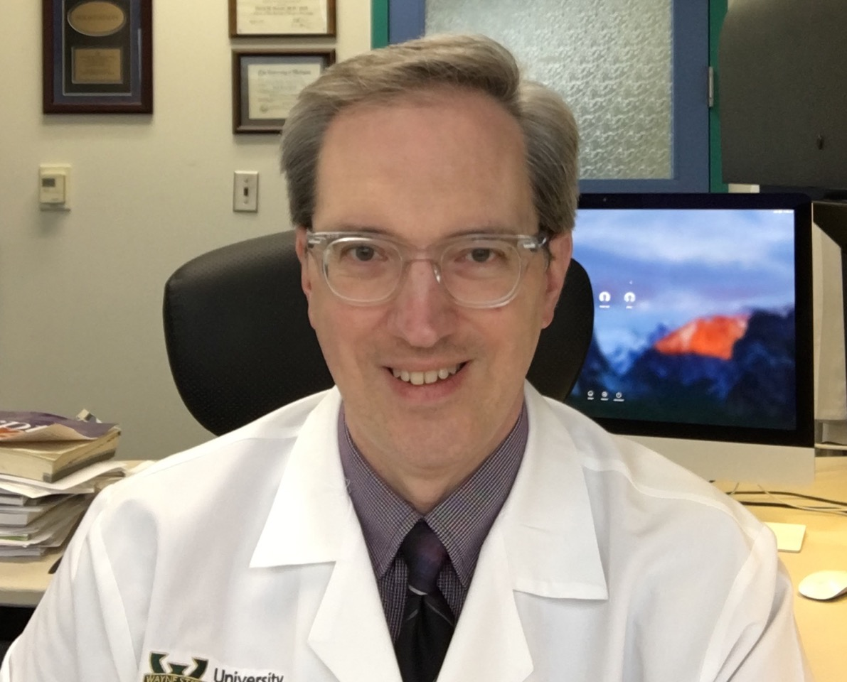 David H. Gorski, MD, PhD in his office at Barbara Ann Karmanos Cancer Center.